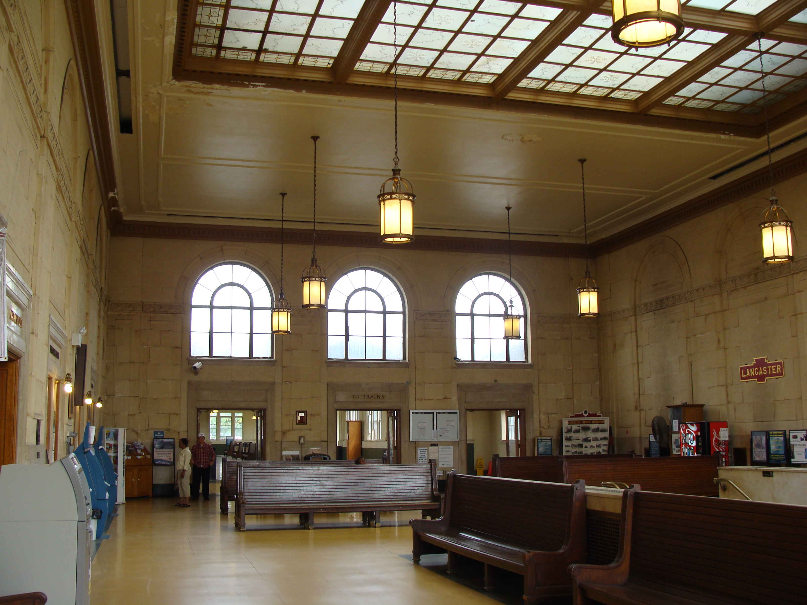 The interior of the Lancaster Amtrak station in Lancaster, Pennsylvania. The concourse leading to the platforms is behind the set of doors on the far wall.